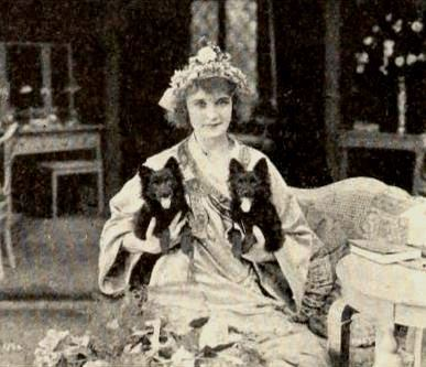 still from the American comedy drama film In Pursuit of Polly (1918) with Billie Burke, on page 62 of the September 7, 1918 Exhibitors Herald.